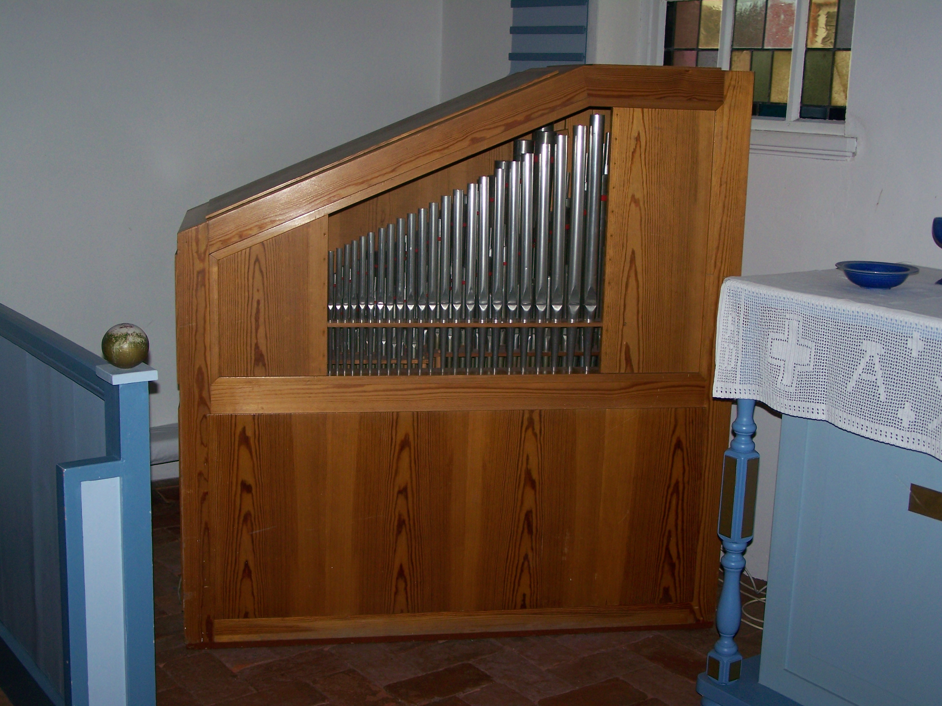 Organ in Baltrum, Alte Inselkirche